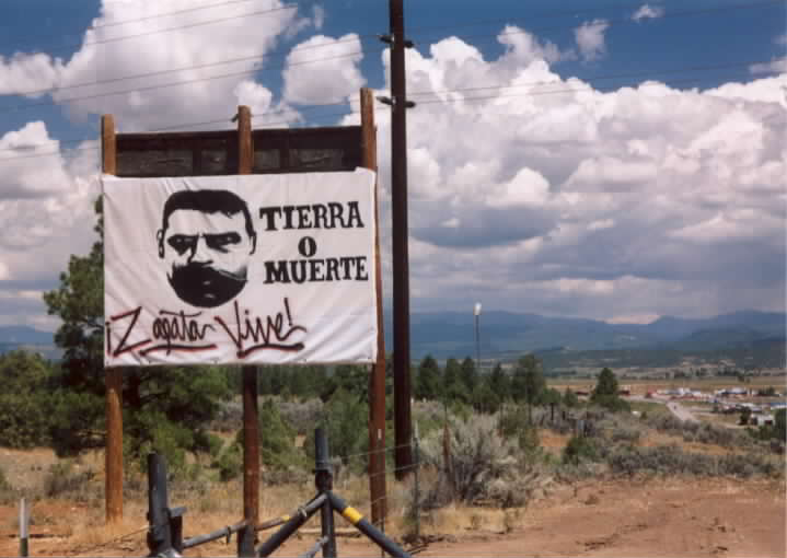 Sign at Tierra Amarilla, New Mexico expressing dissatisfaction over land grant issues. Photo by Einar Einarsson Kvaran.